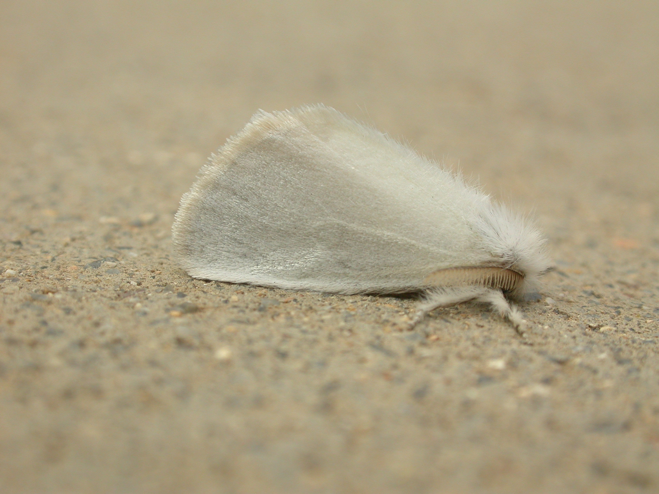 Acyphas semiochrea (Herrich-Sch�ffer, 1855), Black Mountain, Canberra, ACT, 3 May 2010